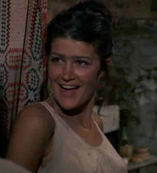 screenshot from the film Serafino (1968)